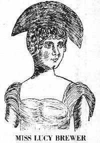 Drawing of Lucy